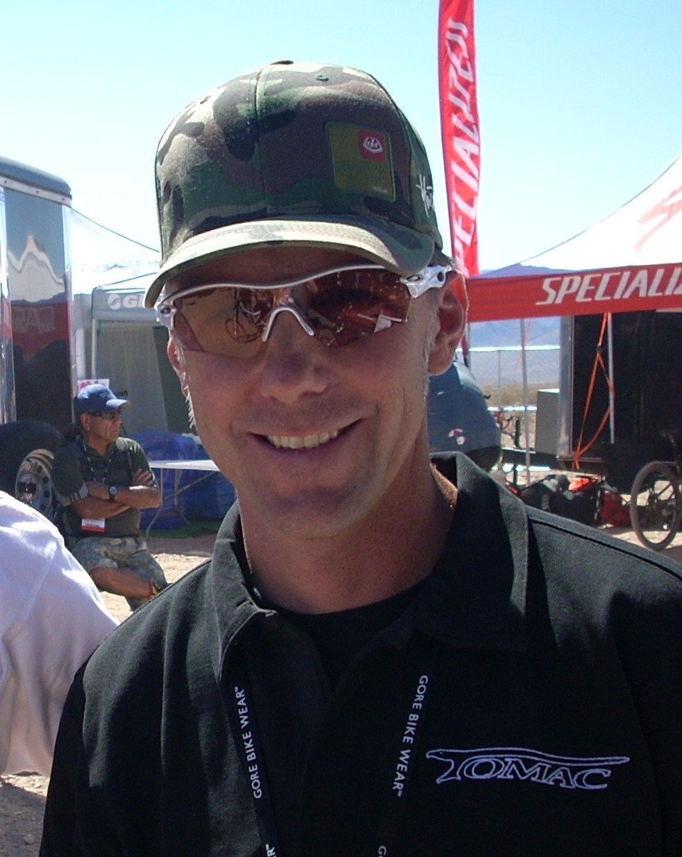 John Tomac, former professional mountainbike racer.